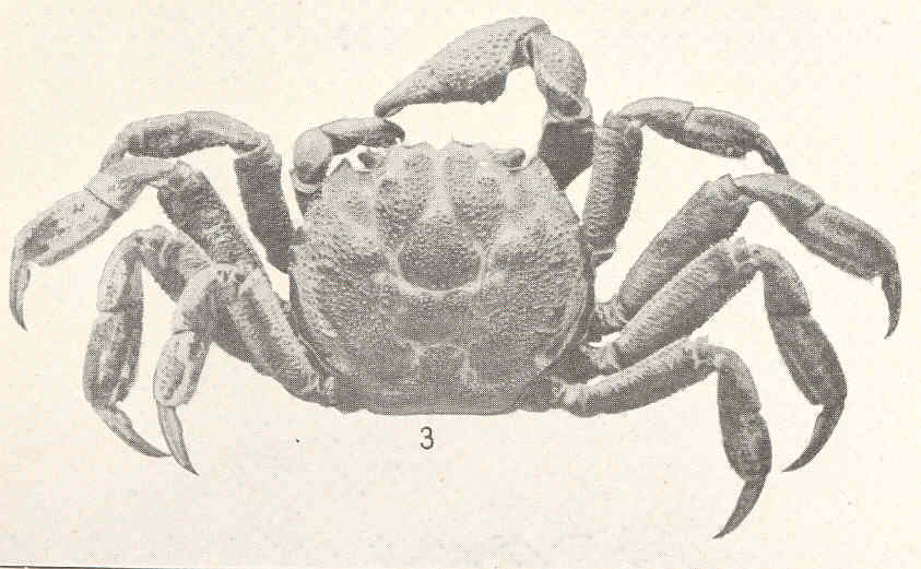 Glyptograpsus jamaicensis Subject: Crabs, Glyptograpsus Tag: Shellfish